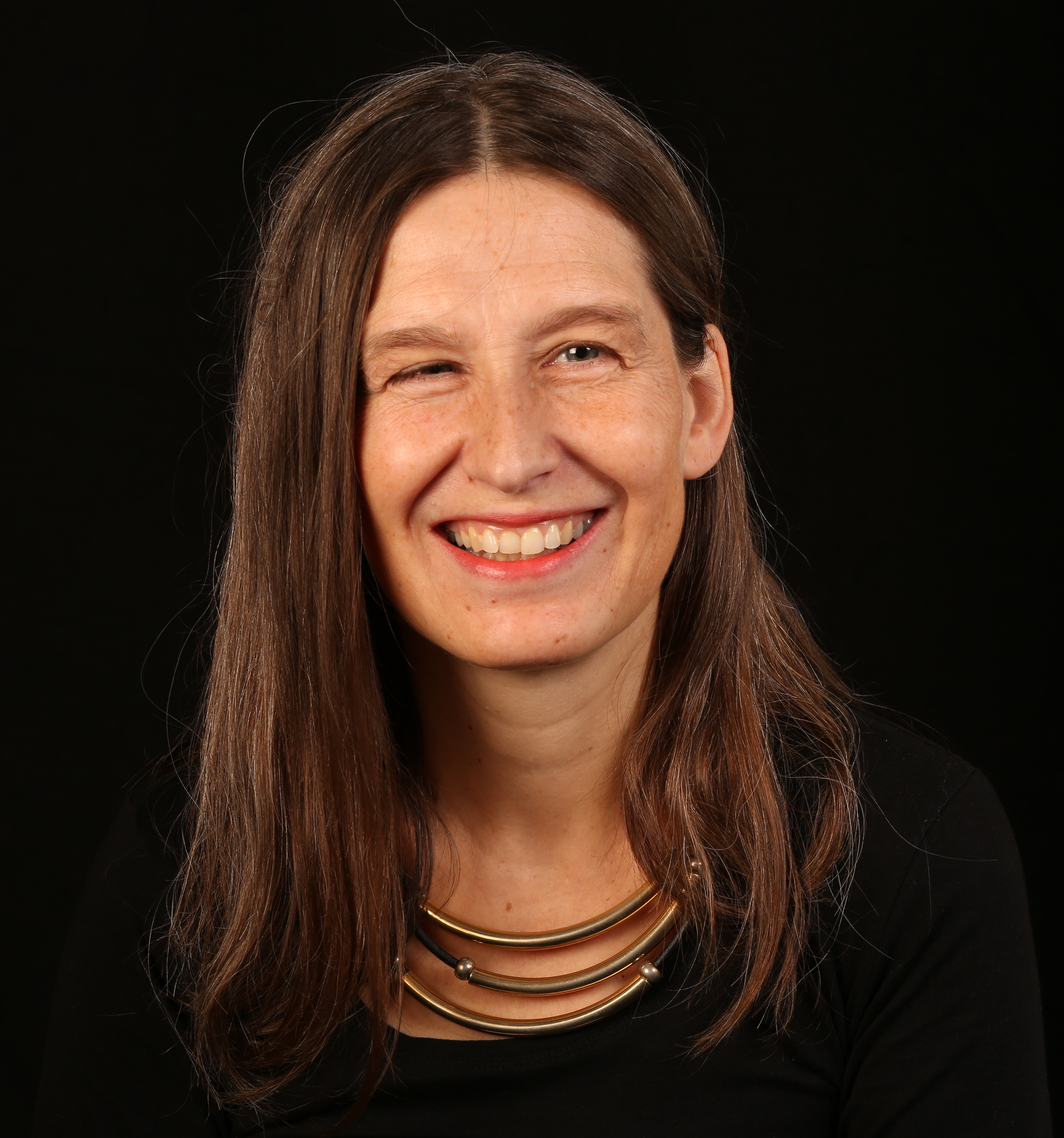 Sandra Becker at the Book Fair Frankfurt 2017.